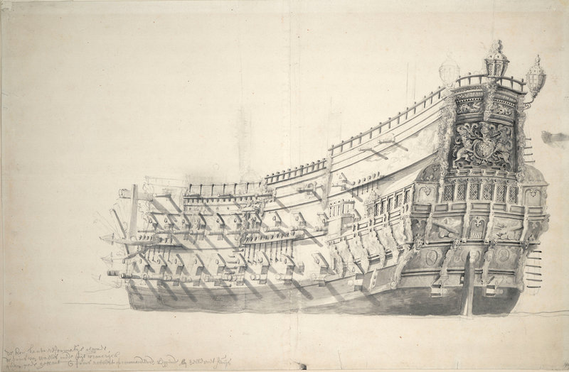 Constant Reformation 1619 [British navy]